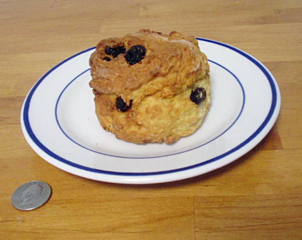 A scone bought in Castlebar, County Mayo, Ireland in October, 2015.